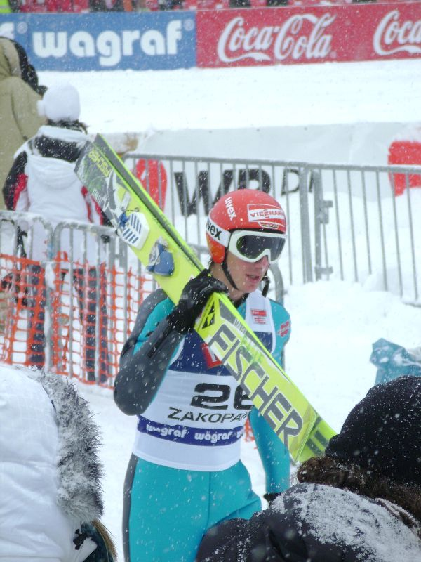 ski jumper Michael Uhrmann from Germany during the World Cup in Zakopane on 27-1-2008